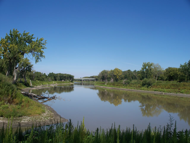 The Red River flowing by Pembina State Park near Pembina, North Dakota. The Pembina River can be seen slowing into the Red at the bottom of the photo.